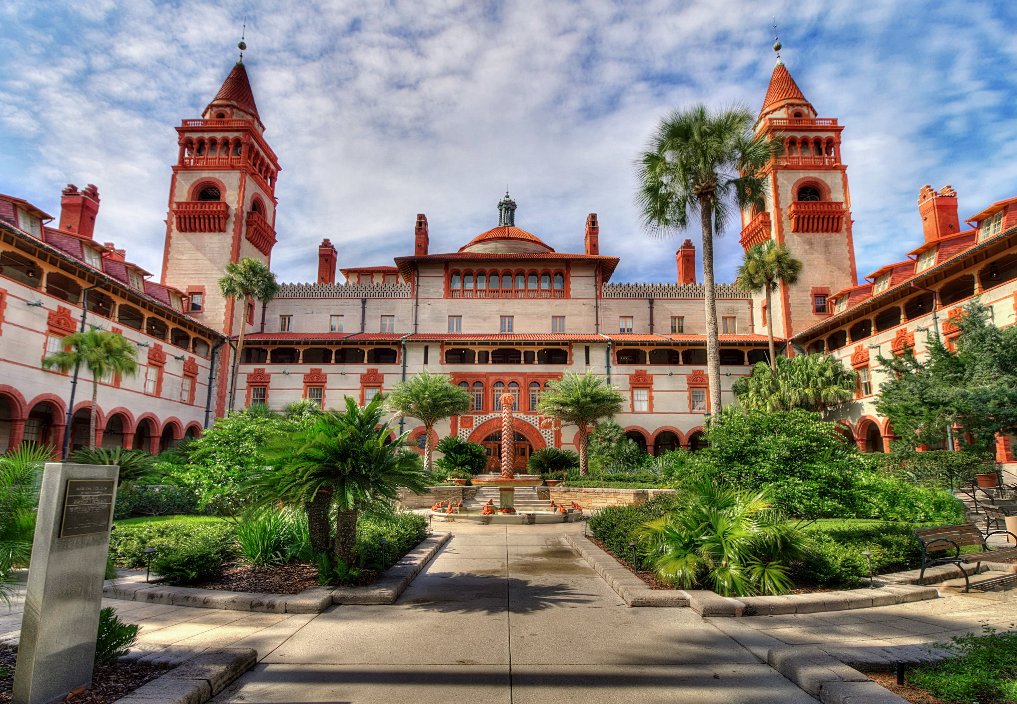 View from inside the courtyard of the beautiful Flagler College in St. Augustine, FL.